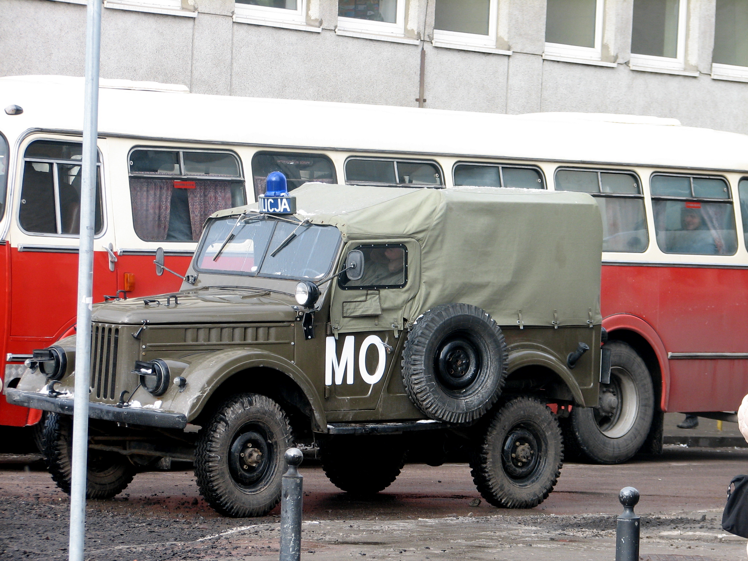 Filming of "Black Thursday" at intersection of ulica Świętojańska and Aleja Józefa Piłsudskiego in Gdynia. People on this picture are actors, extras, and film crew. "Black Thursday" is a film about Polish 1970 protests.